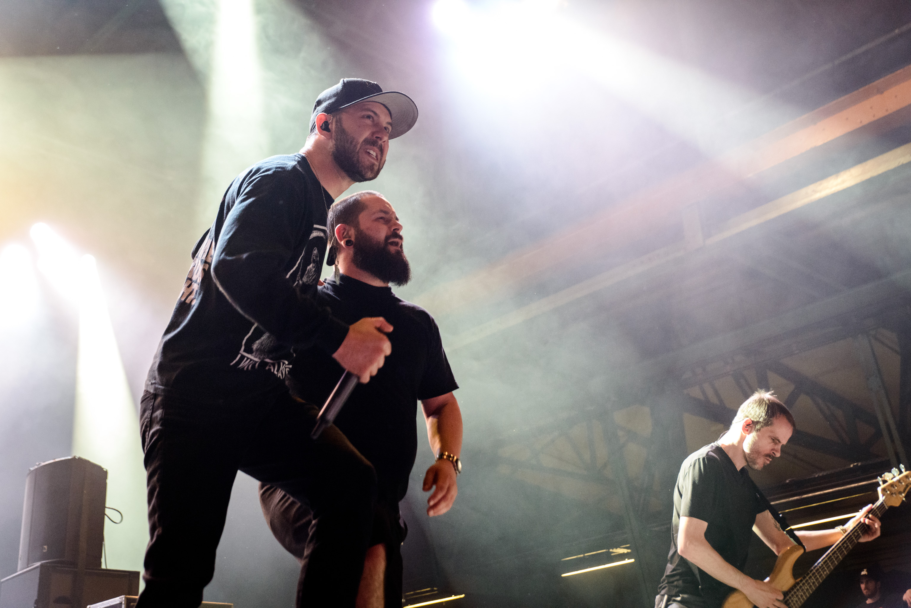 Despised Icon Live @ Impericon 2016 Munich